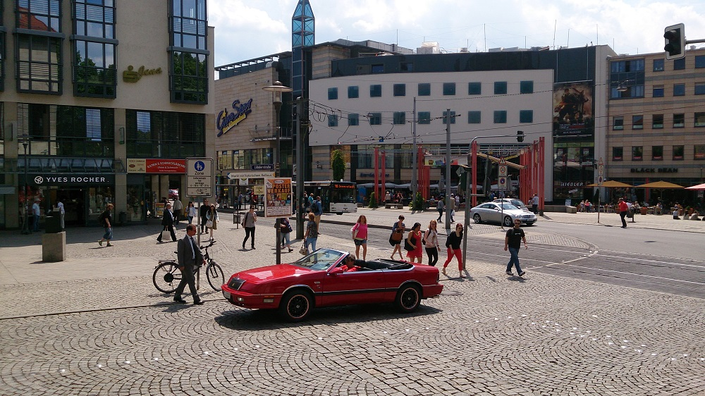 Holzmarkt in der Jenaer Innenstadt